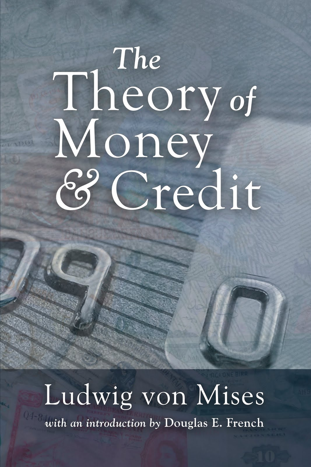 Cover art for the 2009 edition of The Theory of Money and Credit by Ludwig von Mises